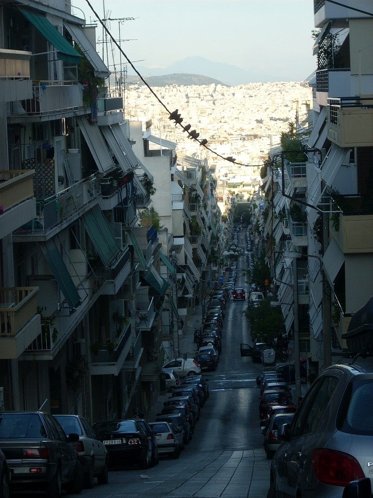 Morning in Anafis Street in Athens (Kypseli)